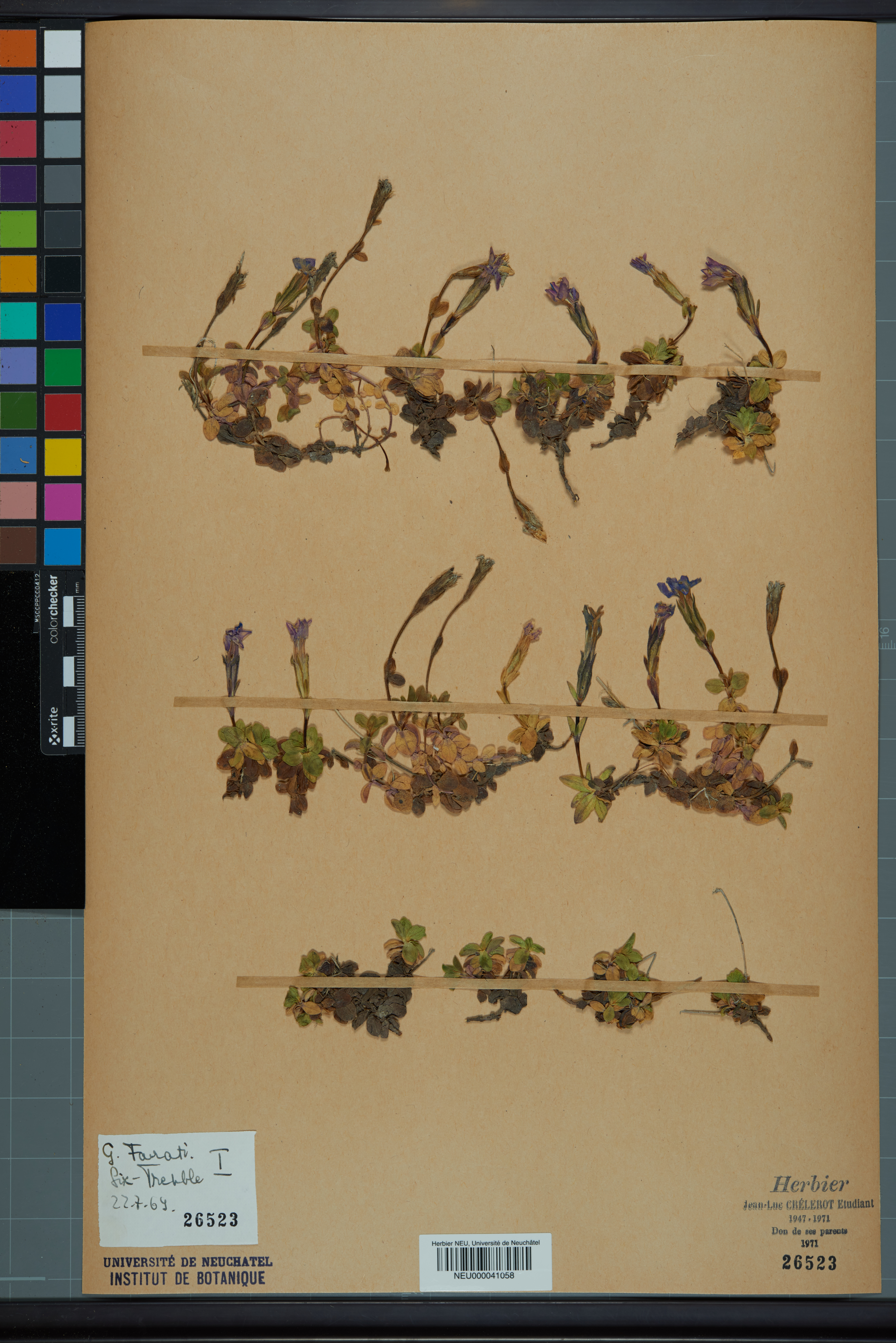 Dried pressed specimen of Gentiana orbicularis